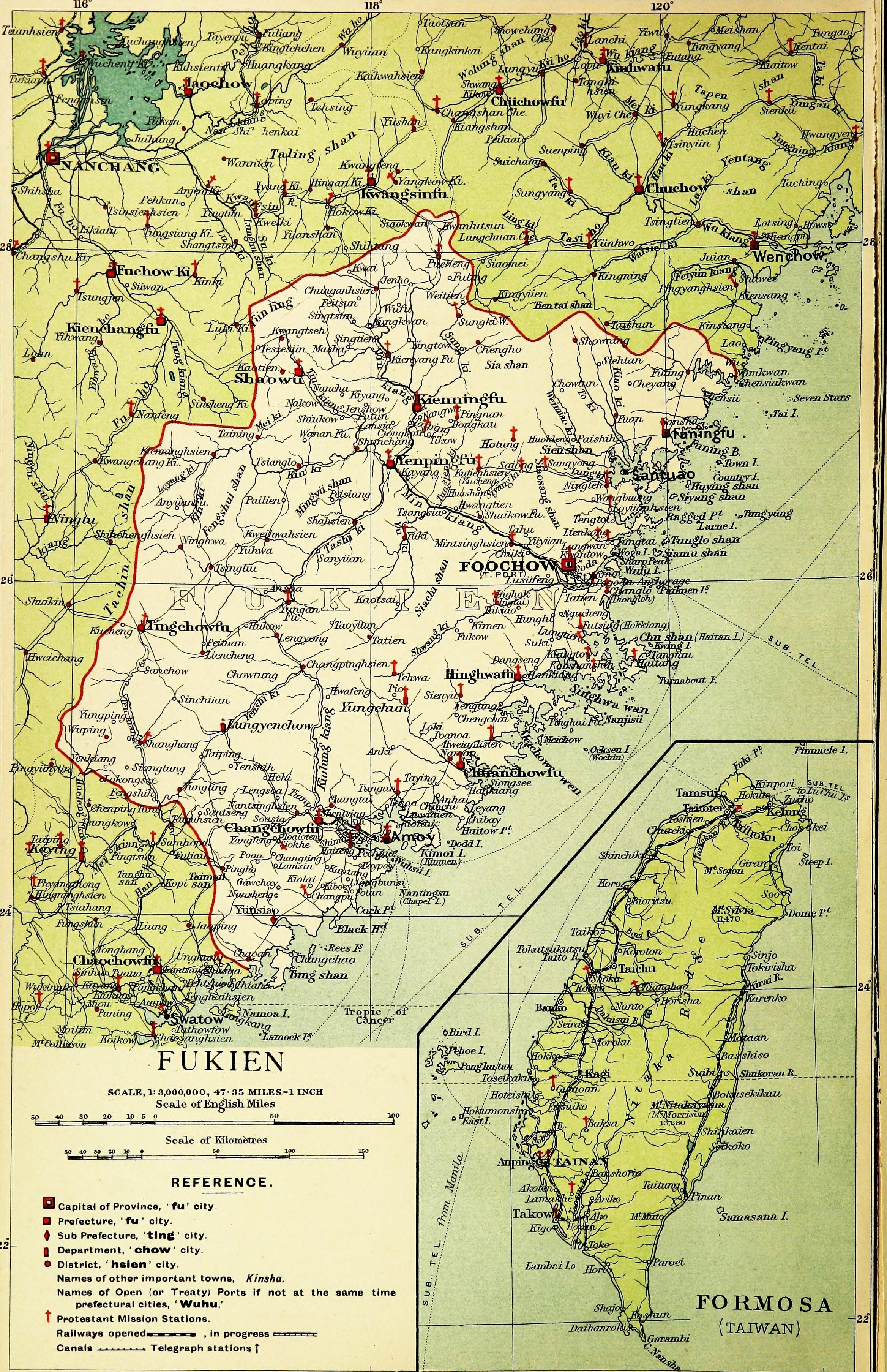 Complete atlas of China : containing separate maps of the eighteen provinces of China proper ... and of the four great dependencies ... , p.19